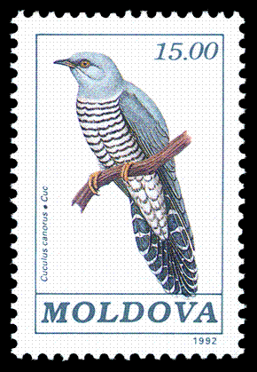 Stamp of Moldova